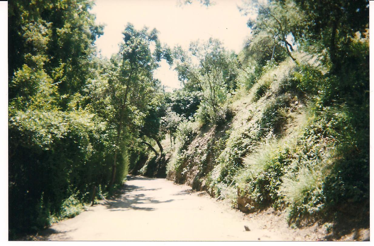 A section of Cielo Drive in Benedict Canyon, near Beverly Hills, Los Angeles, California